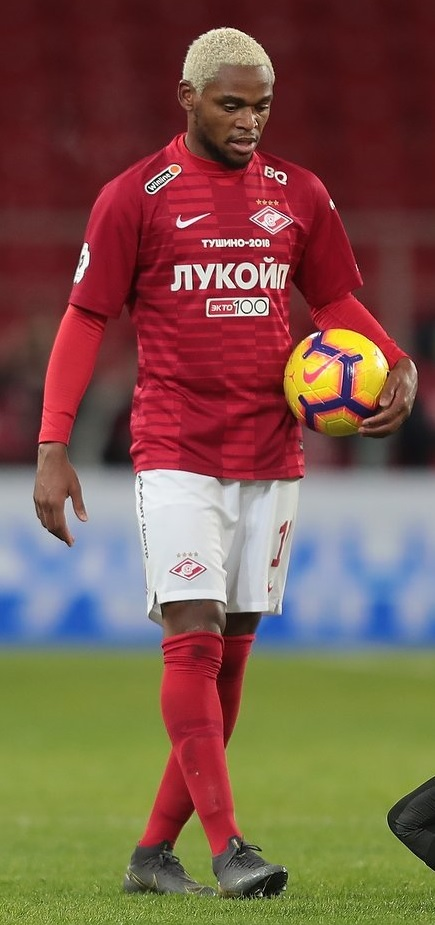 Luiz Adriano with FC Spartak Moscow in a game against FC Krasnodar.